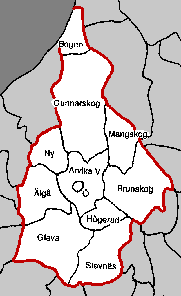 map of old municipalities of arvika